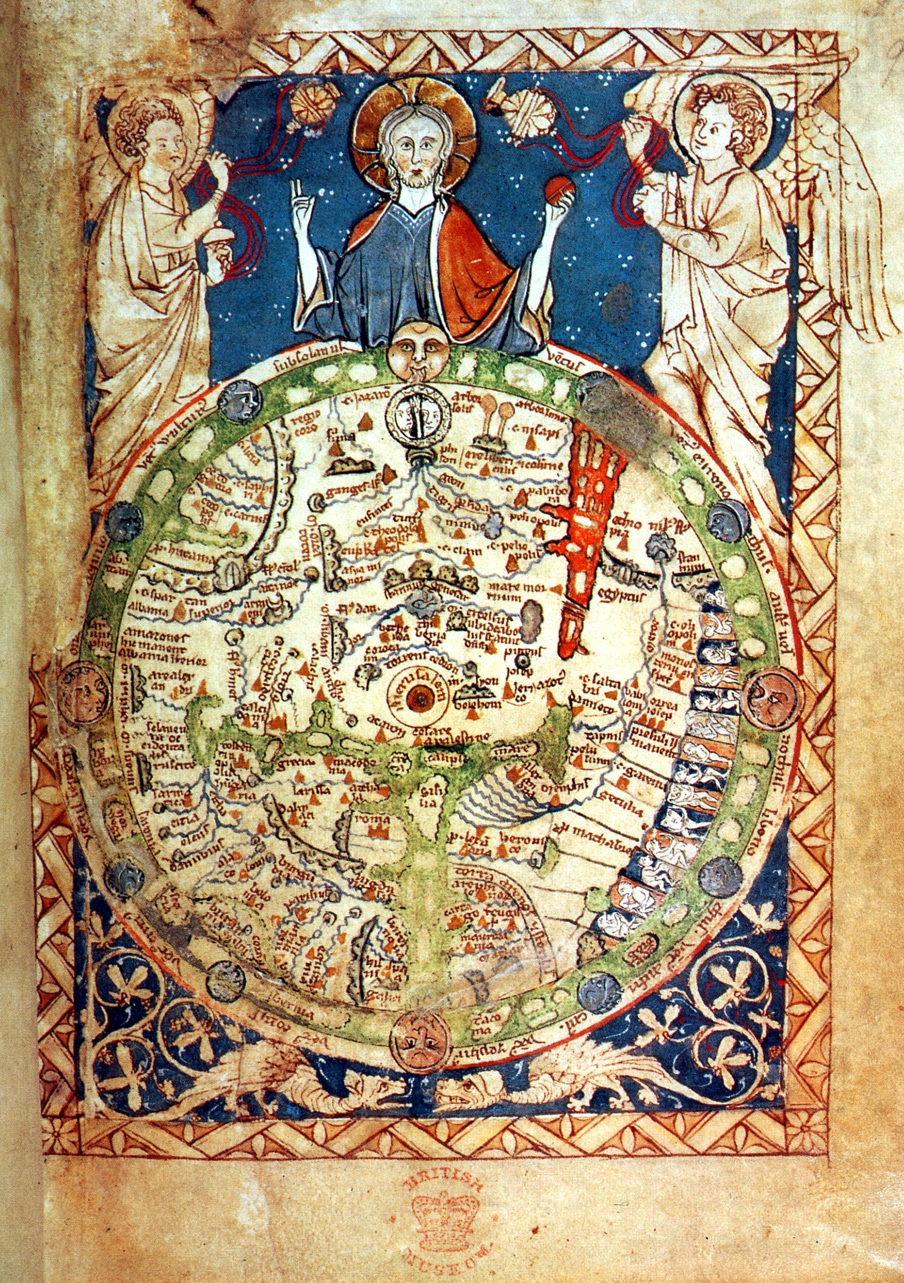 Psalter map (Londoner Psalterkarte): A map of the world, with Jerusalem at the centre and the monstrous races on the outermost edge. London BL: Additional Ms. 28681 fol-9r detail.